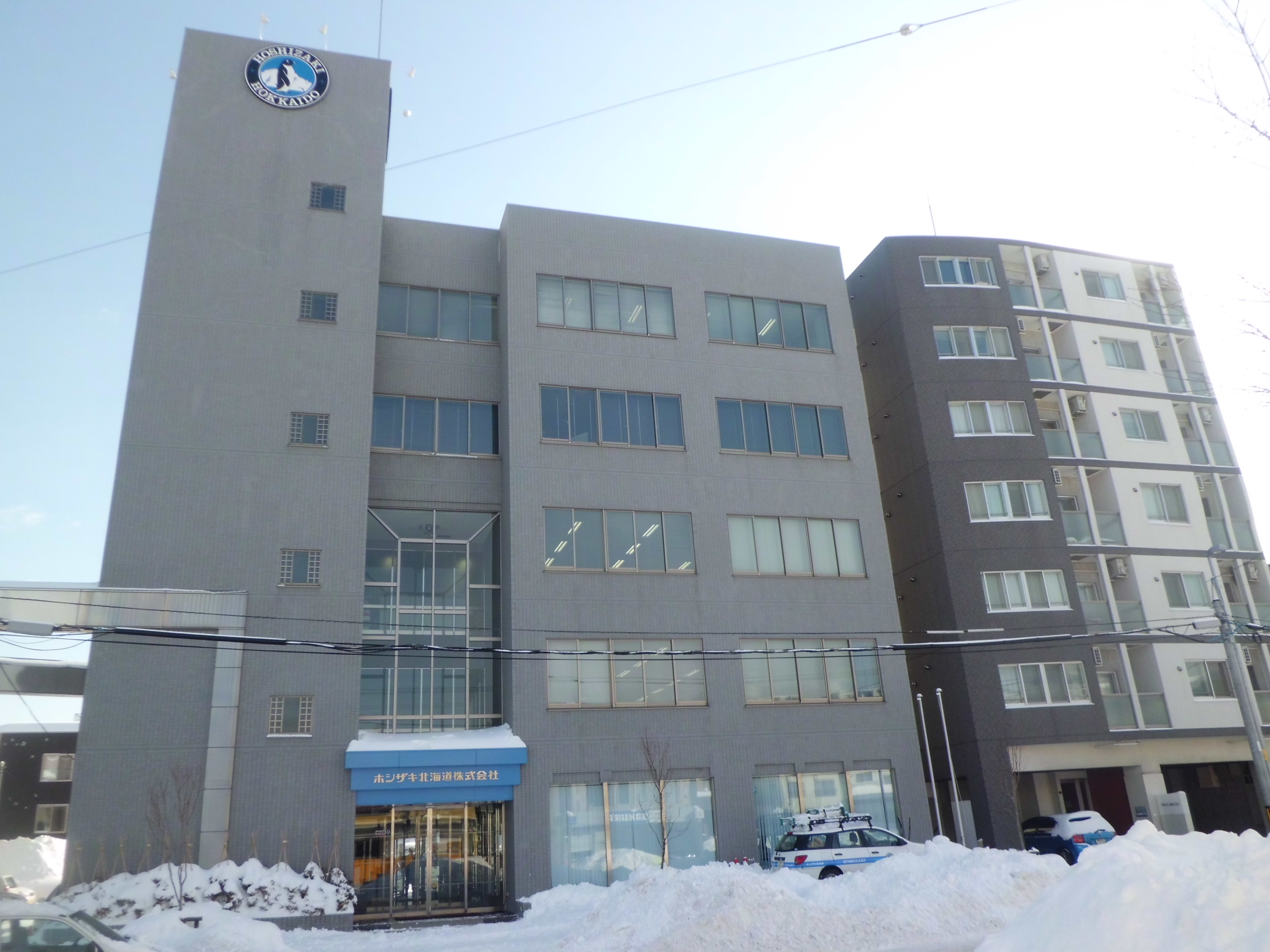 Main office of Hoshizaki Hokkaido in Kikusui, Shiroishi-ku, Sapporo city, Hokkaido.